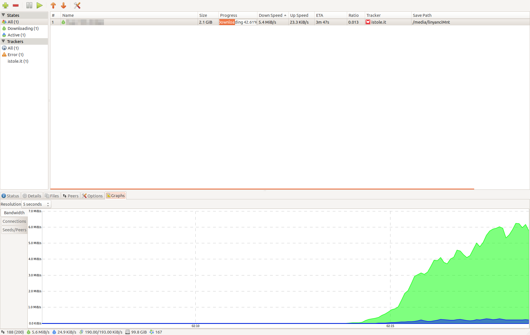 Deluge v 1.3.5 with "stats" plugin running on Ubuntu 12.10